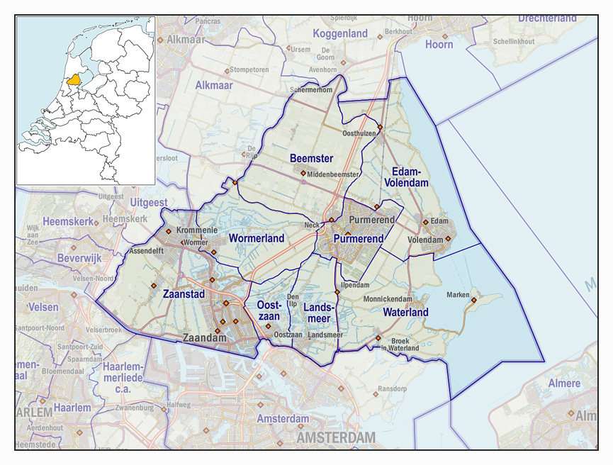 Map of the Dutch Safety Region, with an impression of the terrain and the municipal borders as of 1-1-2017.